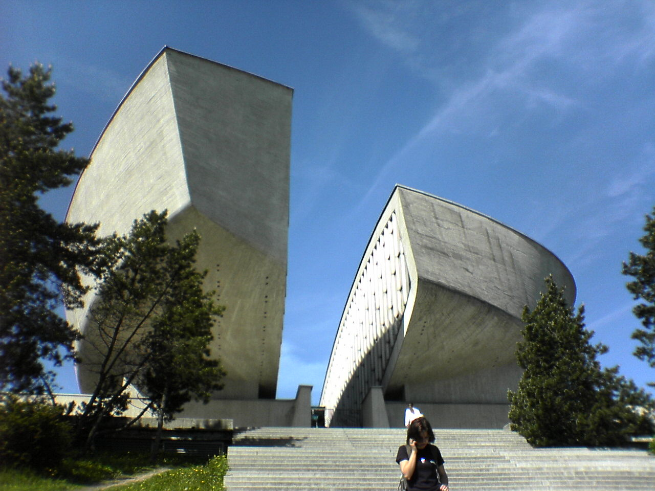 SNP Monument in Banská Bystrica